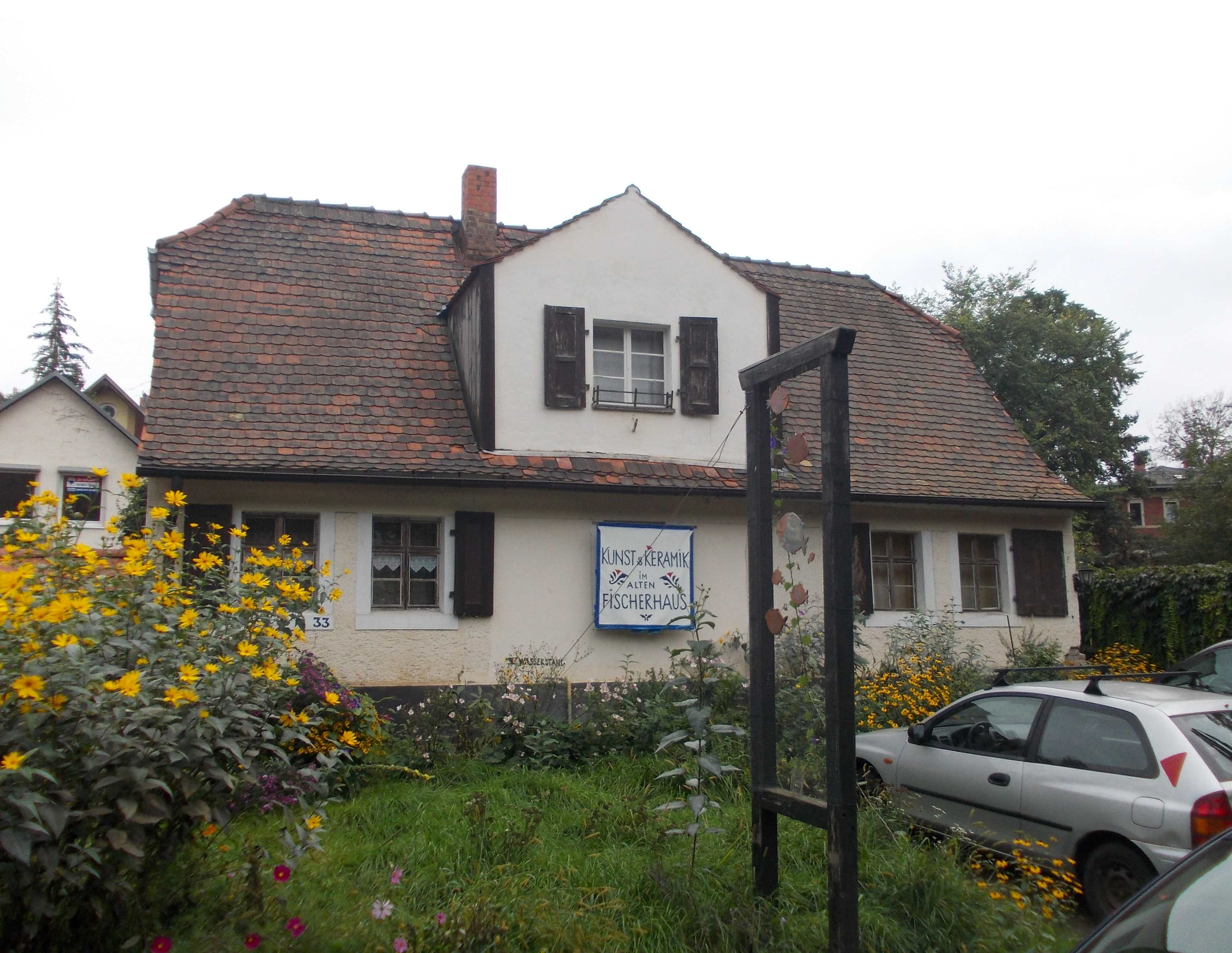 Old fisherman's house in Talstrasse in Kröllwitz (Halle/Saale, Saxony-Anhalt) This is a photograph of an architectural monument. 97065